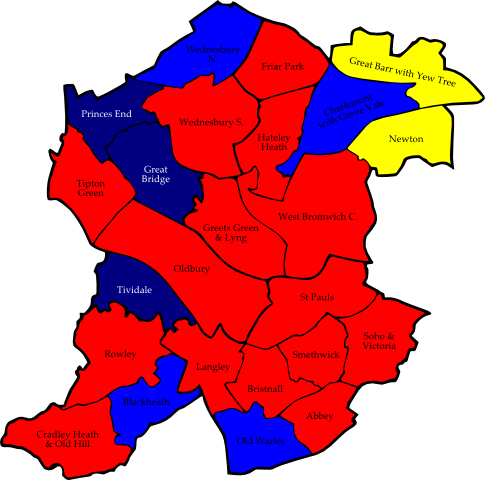 A map of the results of the 2006 Sandwell Council election. Colour legend by wards won: Labour party Conservative party British National Party Liberal Democrats